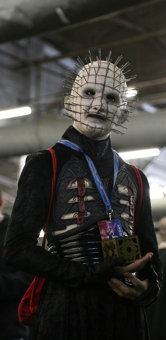 Cosplay of Pinhead (from the Hellraiser film series) at Special Edition: NYC in 2015.